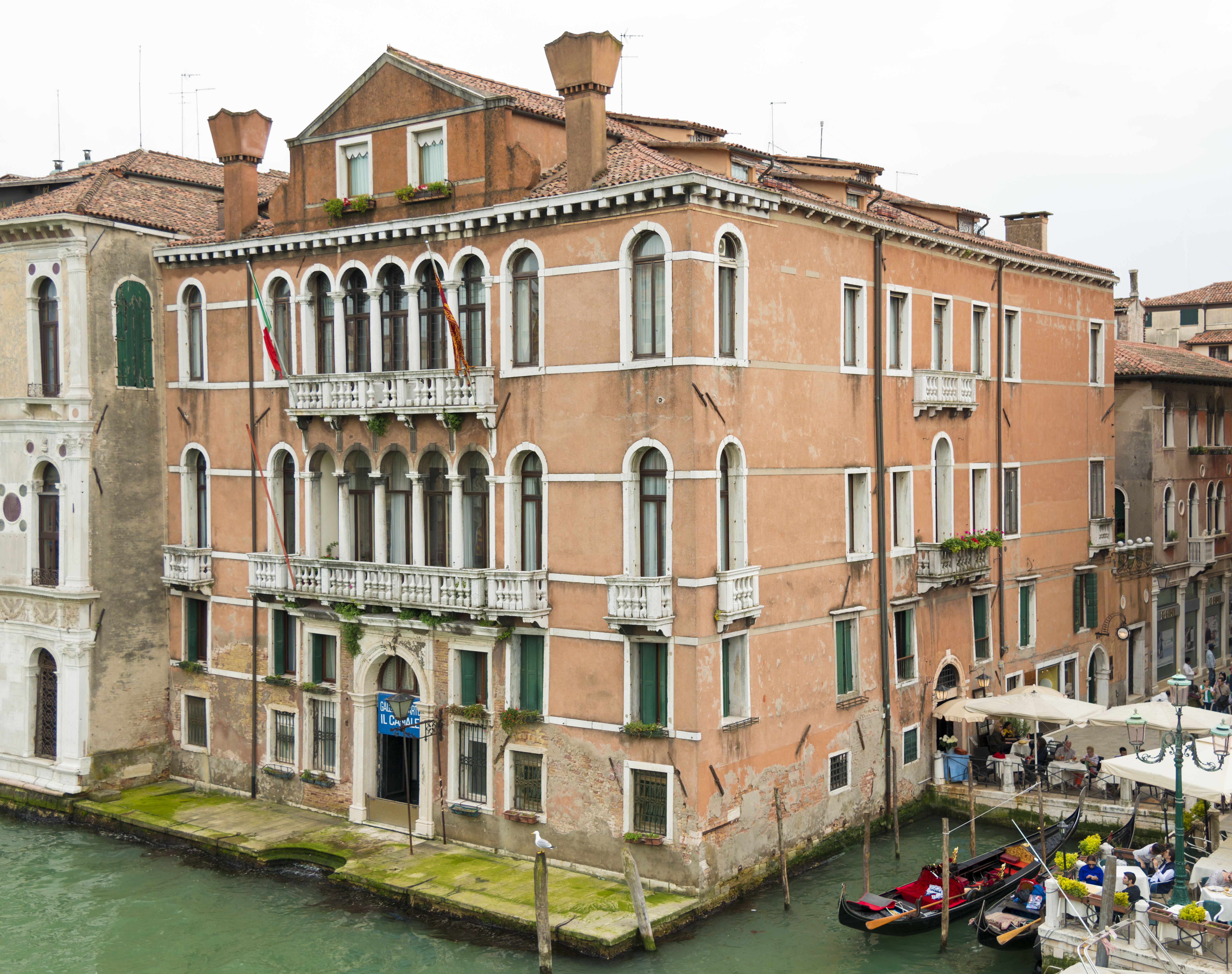 Palace Brandolin Rota Venice. Facade on Grand Canal